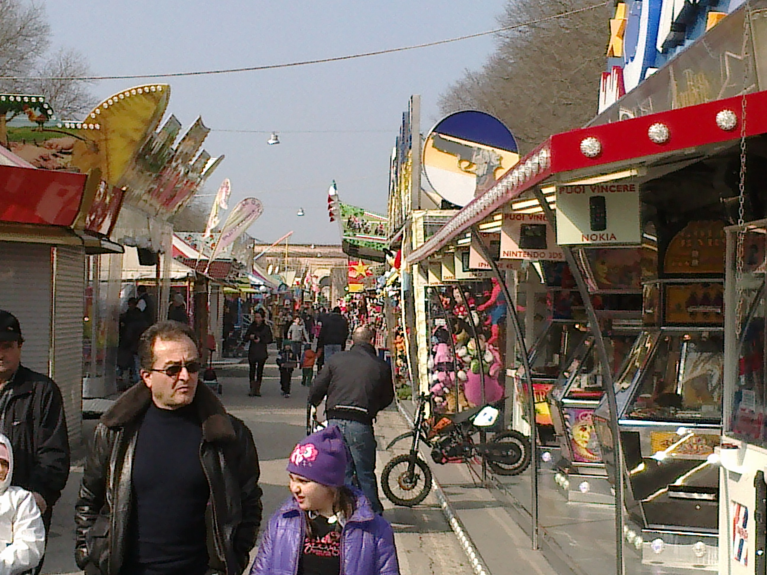 Sant'Anselmo 2013 funfair in Mantua, Italy.